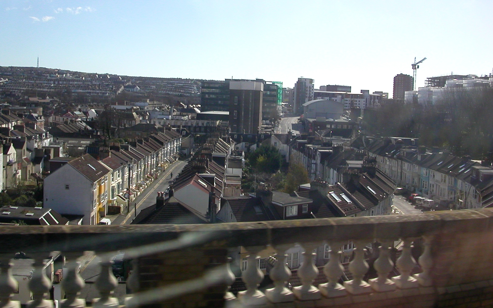 A southward view from London Road Viaduct, Brighton, City of Brighton and Hove, England, looking towards St Bartholomew's Church, the New England Quarter and the city centre. The streets in the foreground are Campbell Road and Argyle Road.